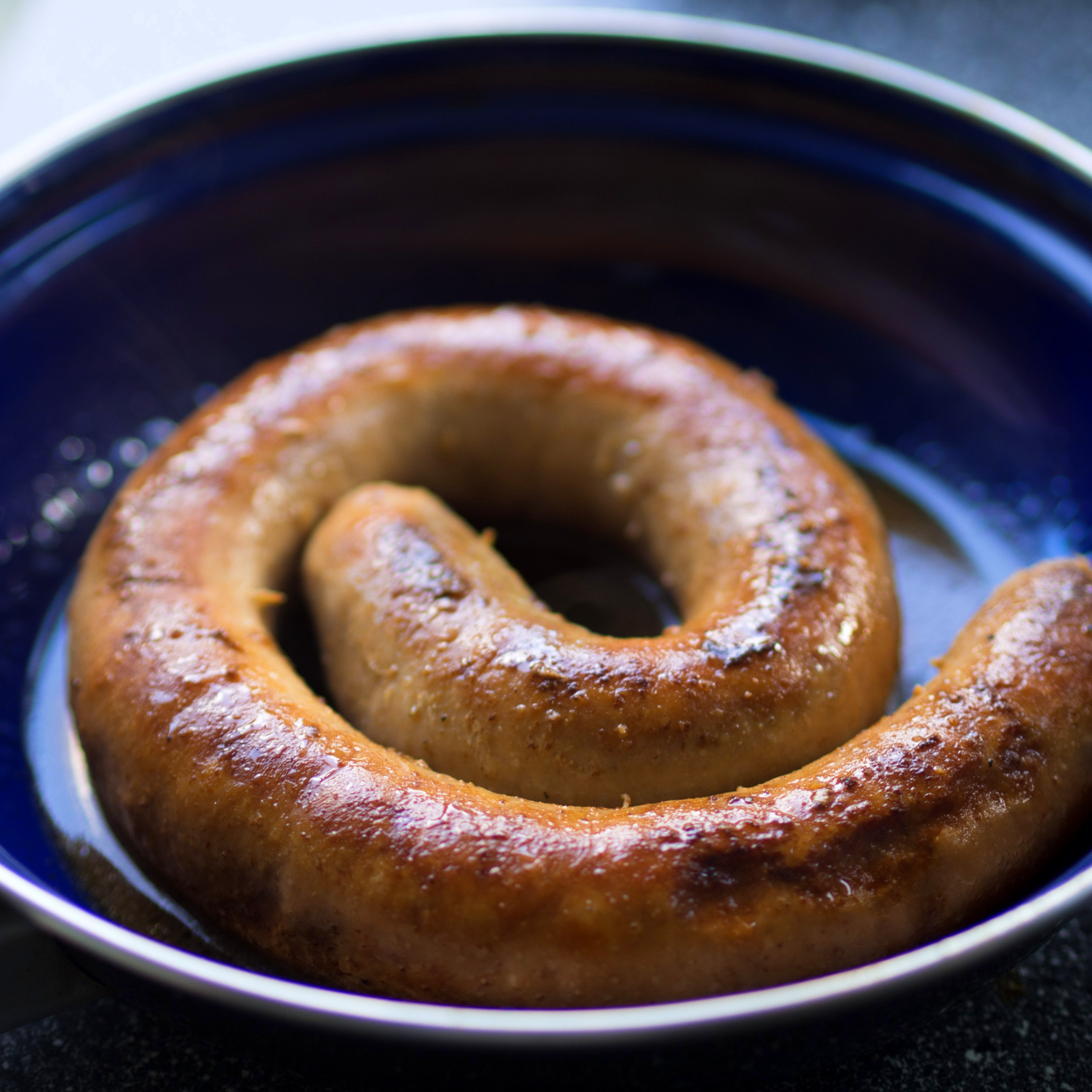 "Braadworst", fried in butter, to be eaten with boiled potatoes. The gravy is used as a sauce over potatoes.